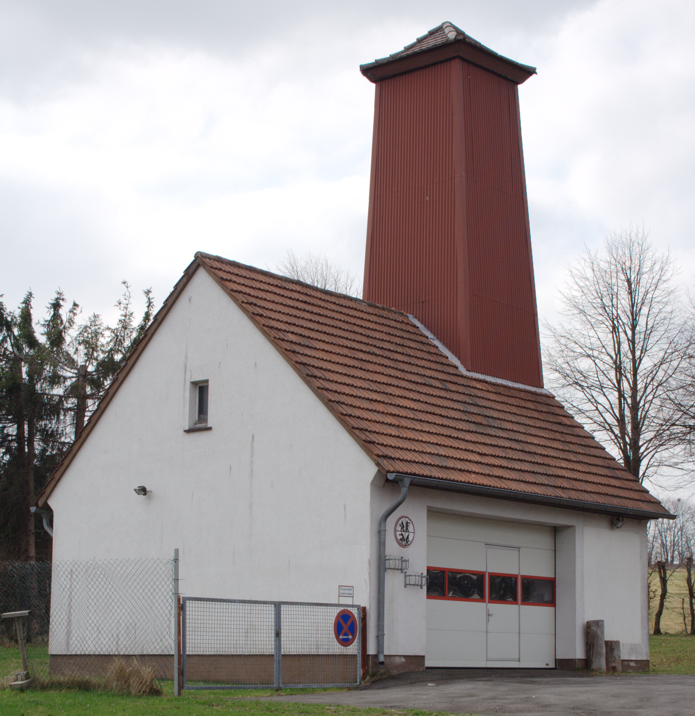 Building (fire station) in Hartmannshain, Grebenhain, Hesse, Germany